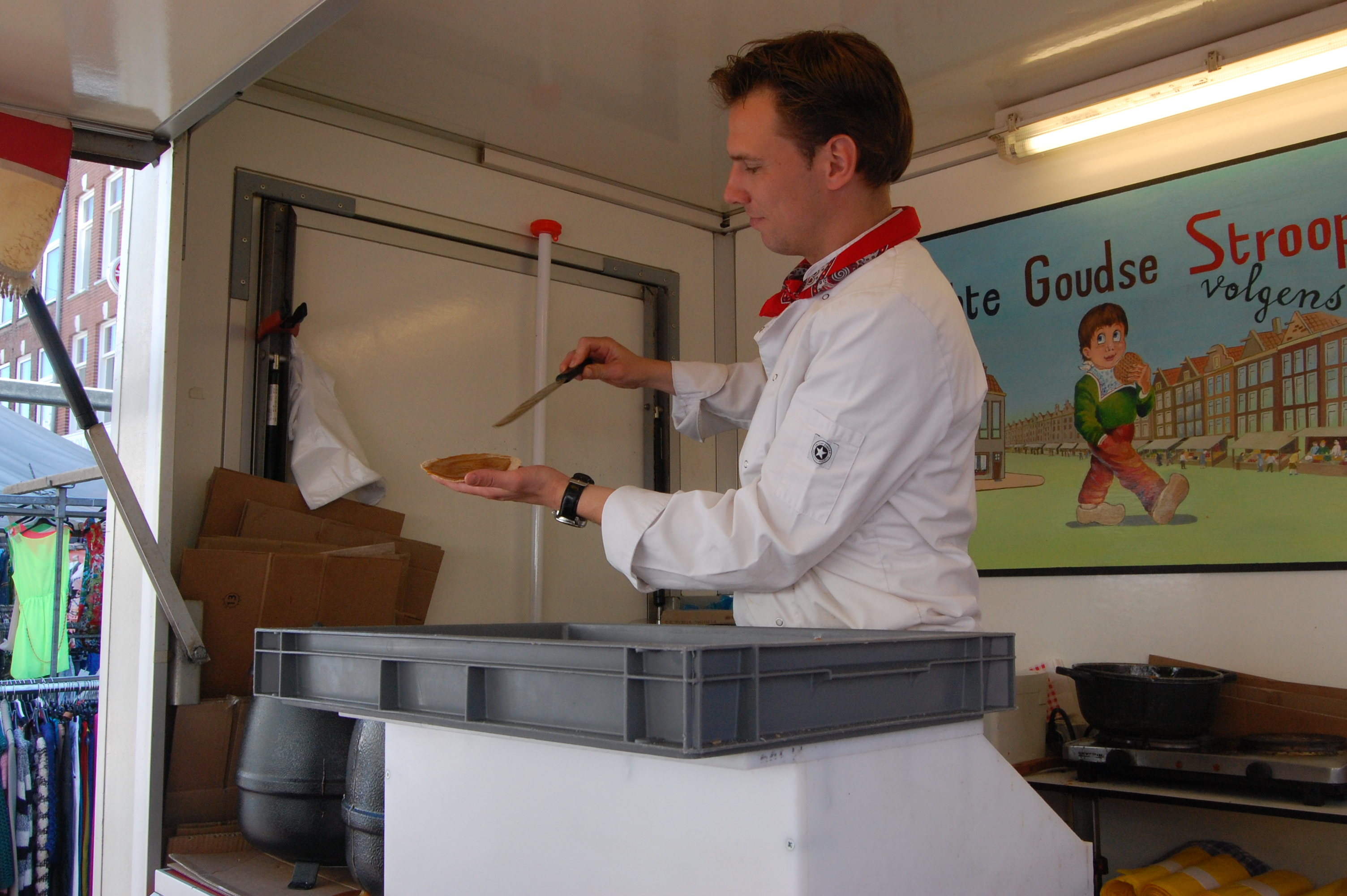 The process of making Stroopwaffle, on a stall at the 'Albert Cuyp markt' (street market on Albert Cuyp Straat) in Amsterdam. Spreading the syrup, using a broad-bladed spatula.